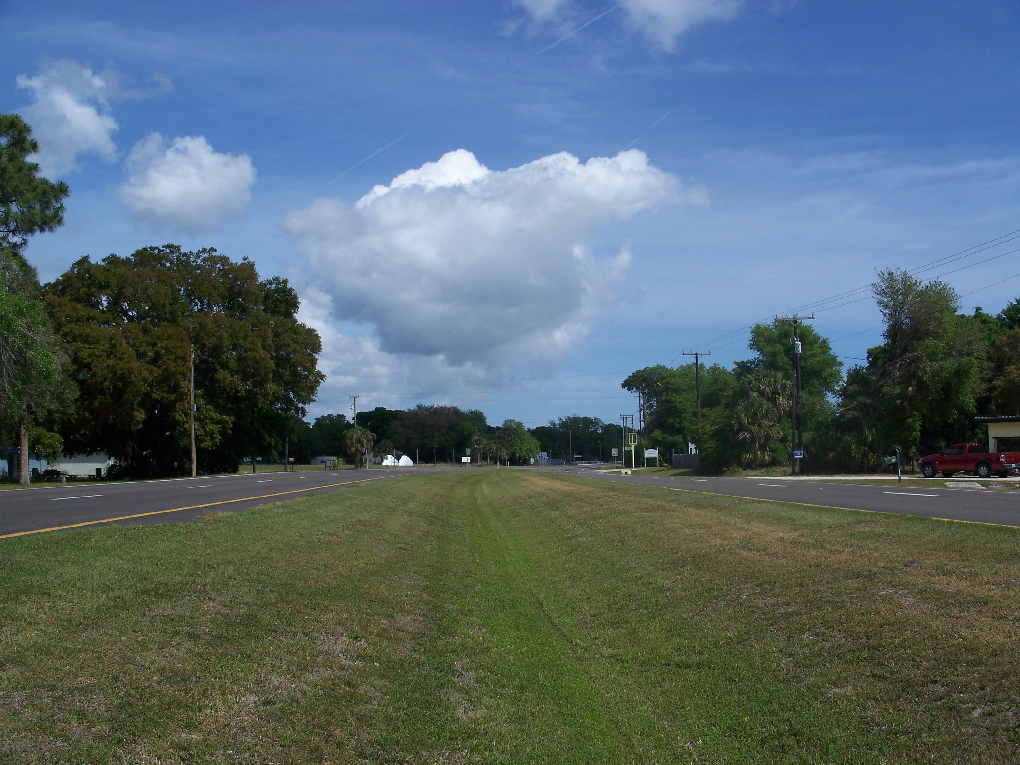 Oak Hill, Florida: US 1, looking north.